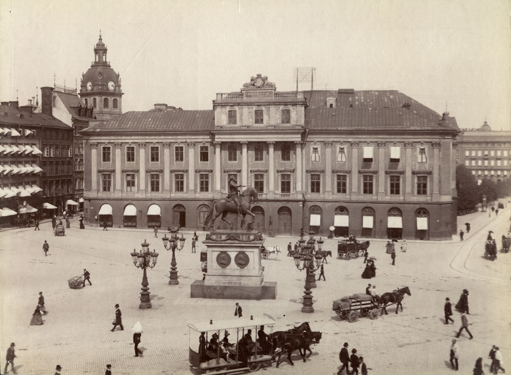 The old Opera House from 1782 at Gustav Adolf Square. Also called the Gustavian Opera. The house was demolished in 1892 and a new opera house was built on the same spot. To the left is the tower of St. Jakob's Church. Format: Albumen print